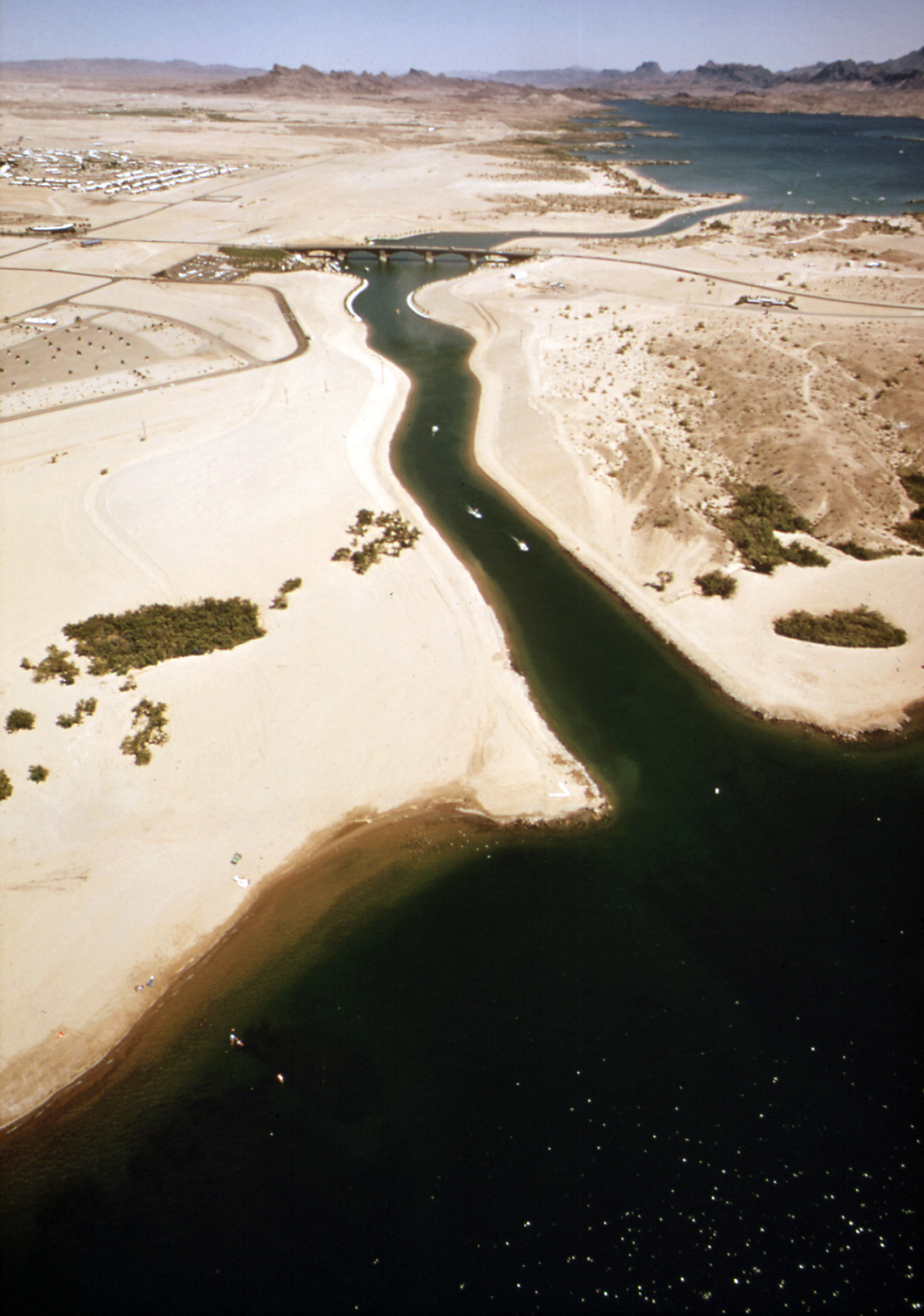 Crop and retouch